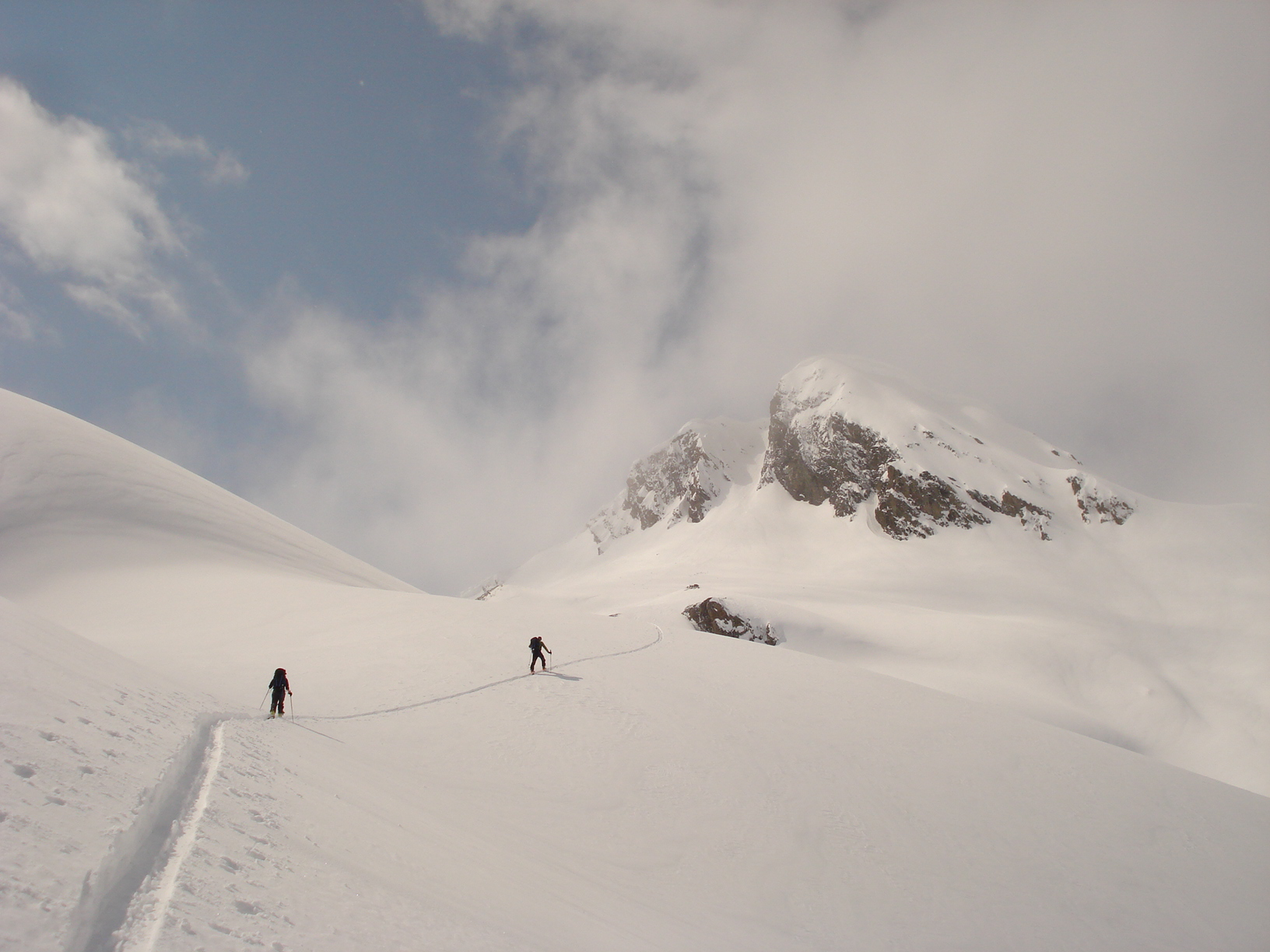 Skiing into Azure Pass, Cariboo Mountains, British Columbia.